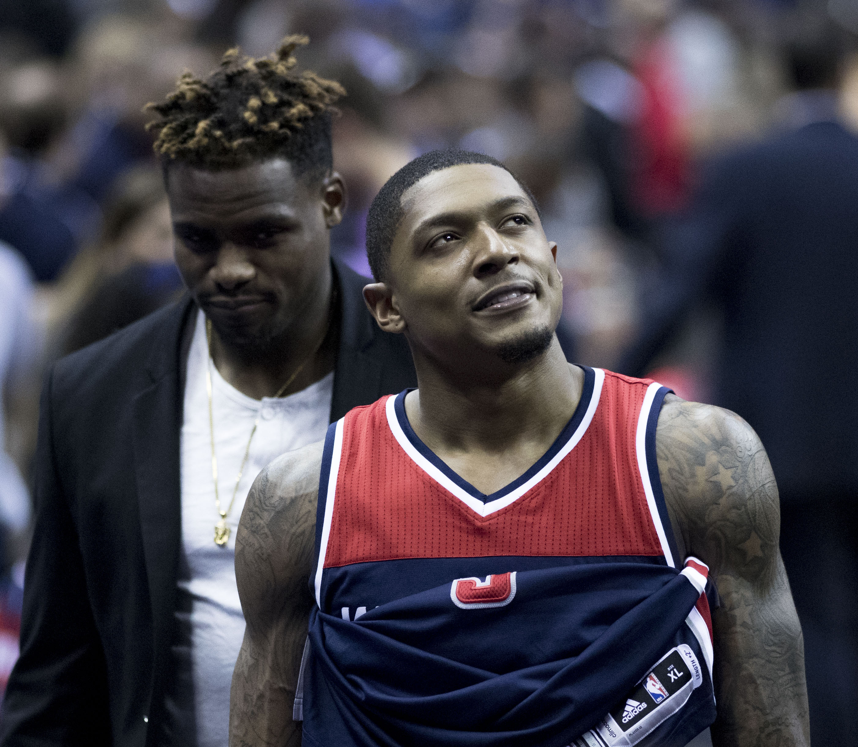 Bradley Beal during a Washington Wizards game versus the Cleveland Cavaliers in 2017.